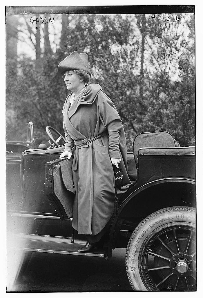 Johanna Gadski in 1917